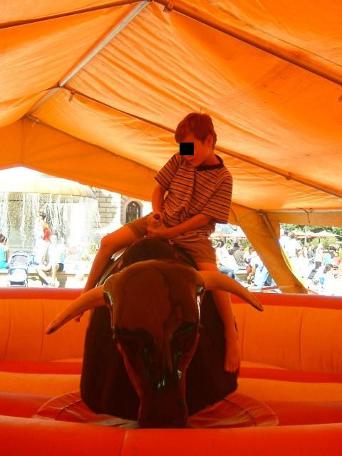 Bull riding for children in Frankfurt am Main, Opernplatz